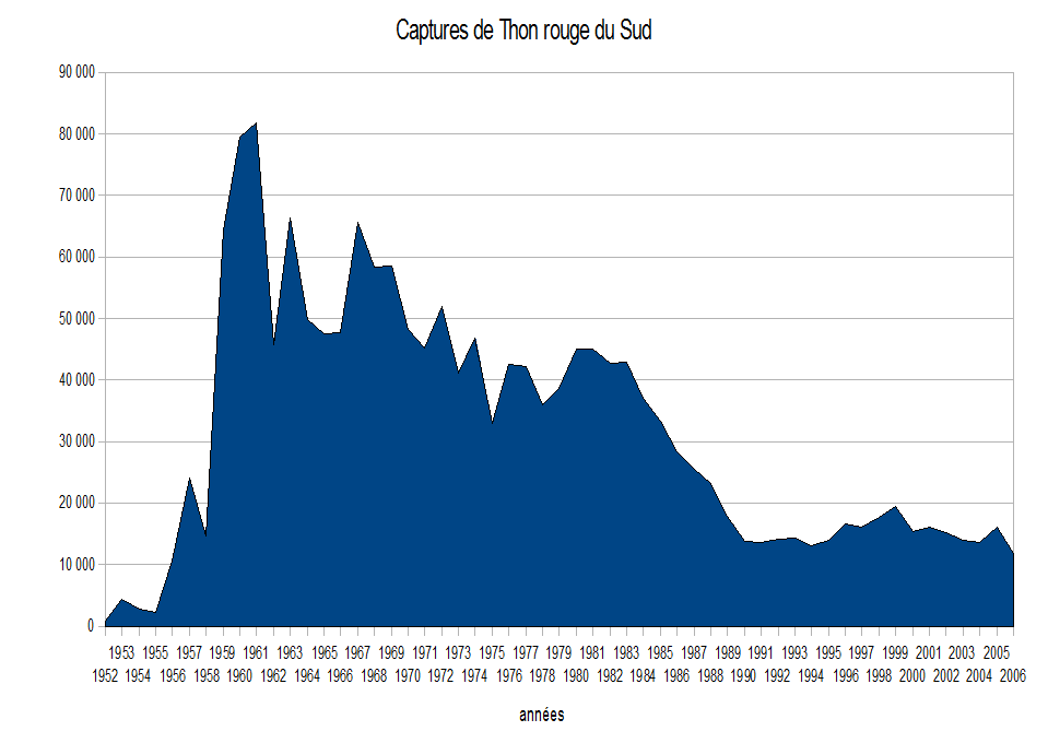 Estimated Total Global Catch of Southern Bluefin Tuna (as whole weights in tonnes)